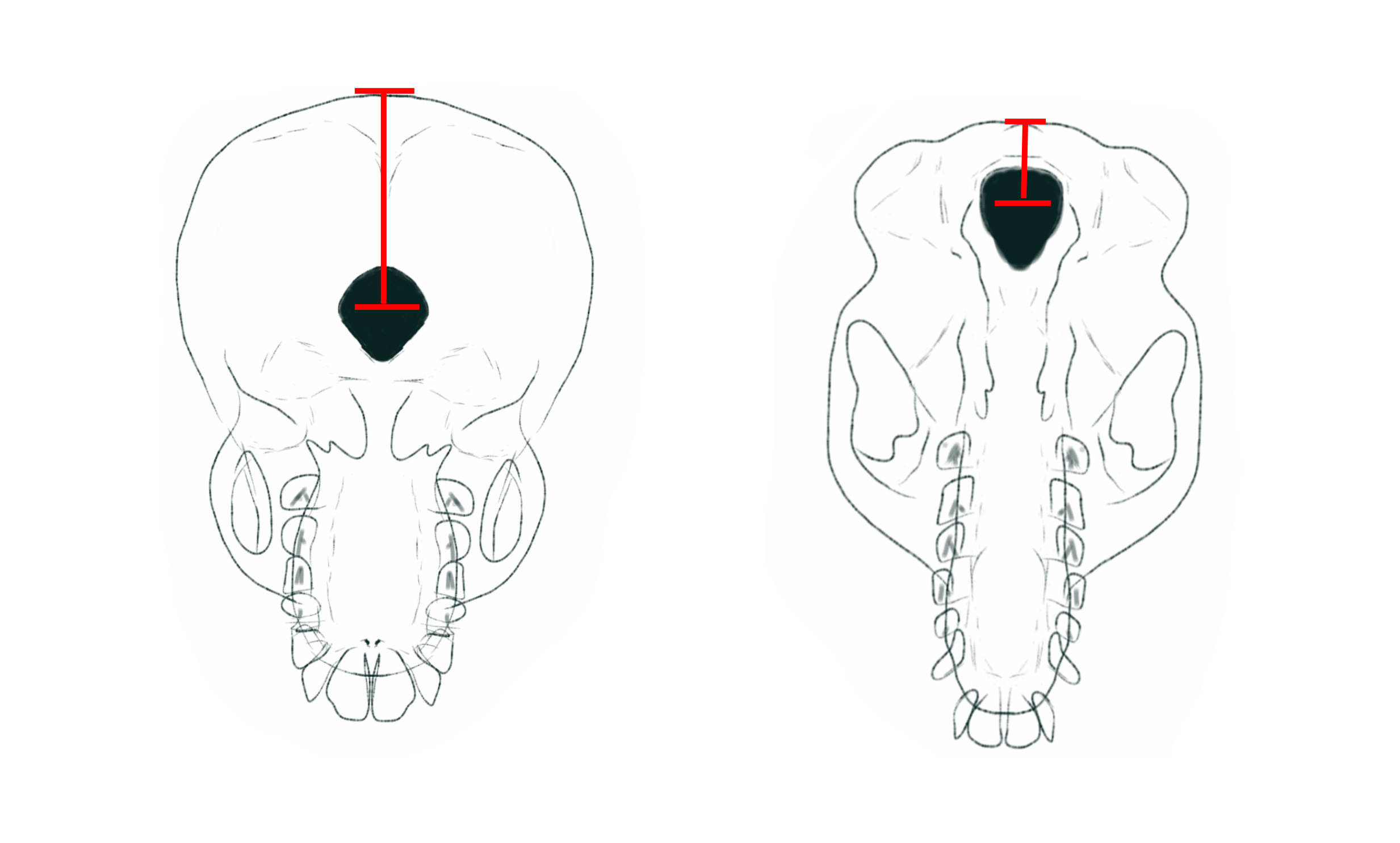 Line art of the undersides of human and chimpanzee skulls, comparison of foramen magnum location. Now with 20% less copyright violation!